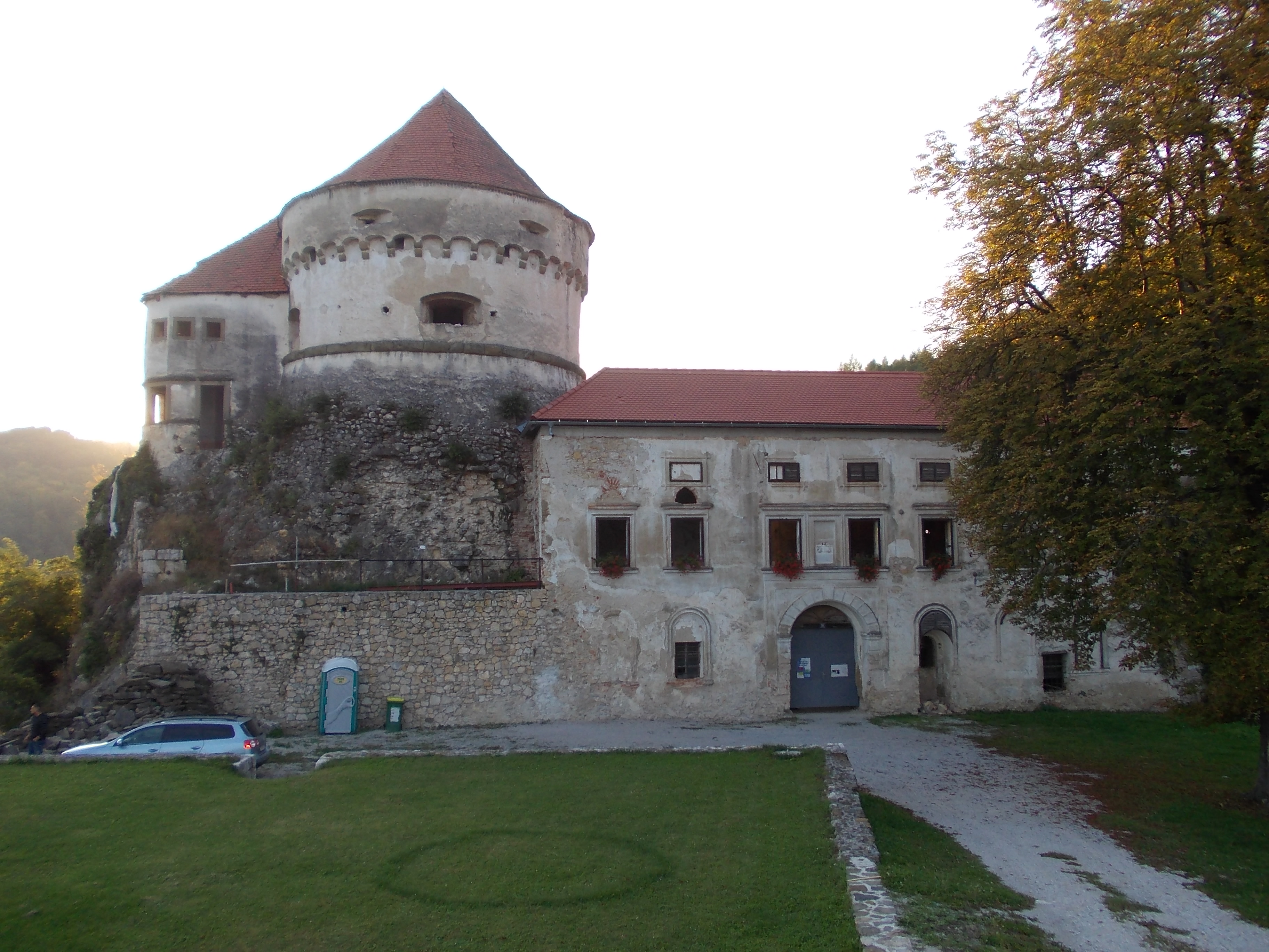 Lemberg pri Novi Cerkvi Castle